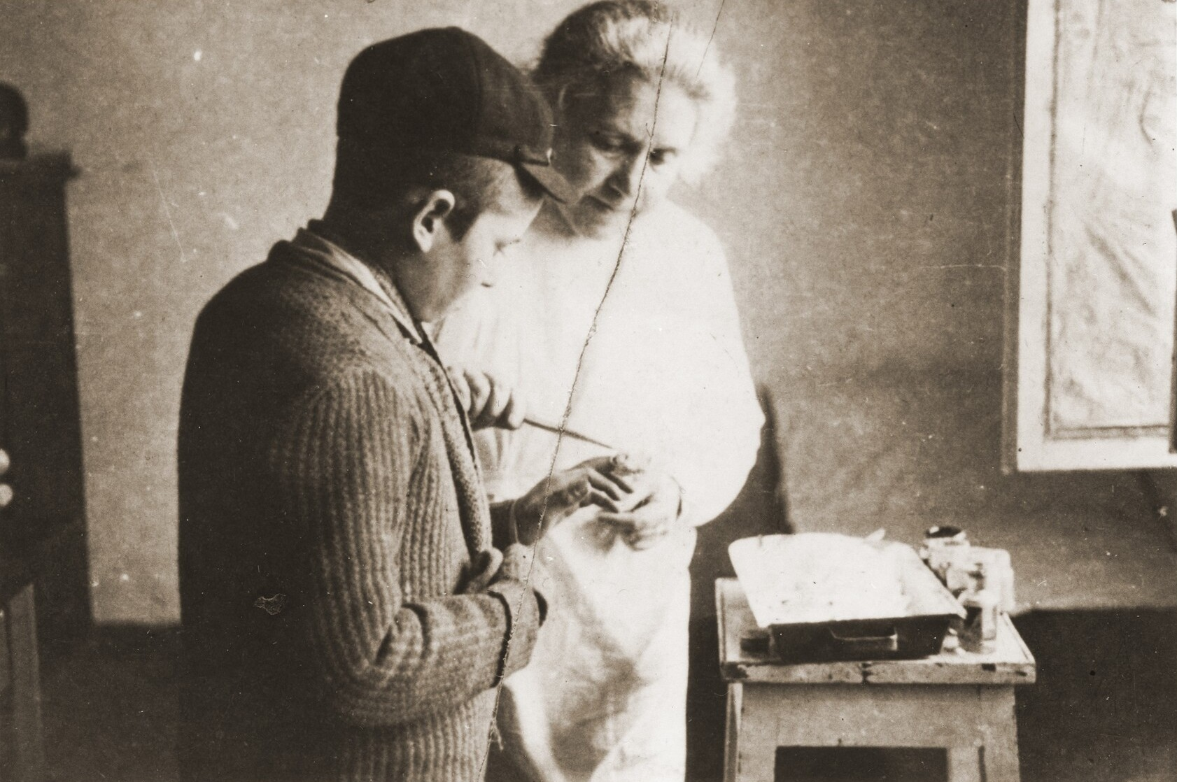 Ghetto Litzmannstadt: A woman doctor tends to a young man who has injured his hand